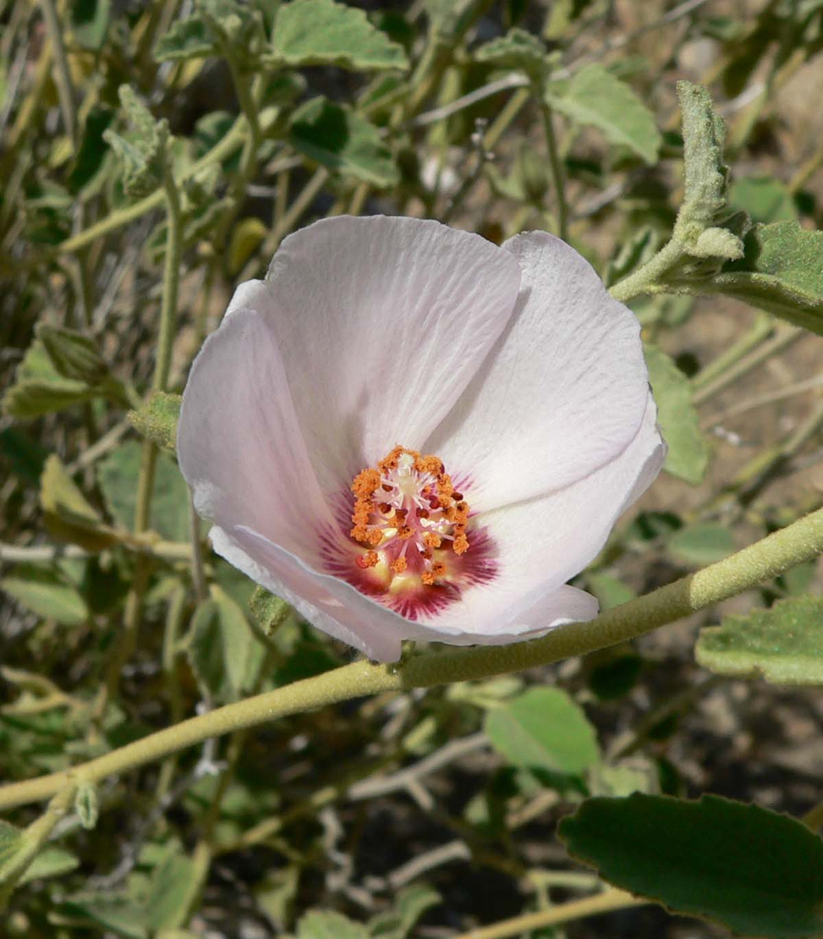 Photo of Hibiscus denudatus (pale face) in Palm Canyon, California